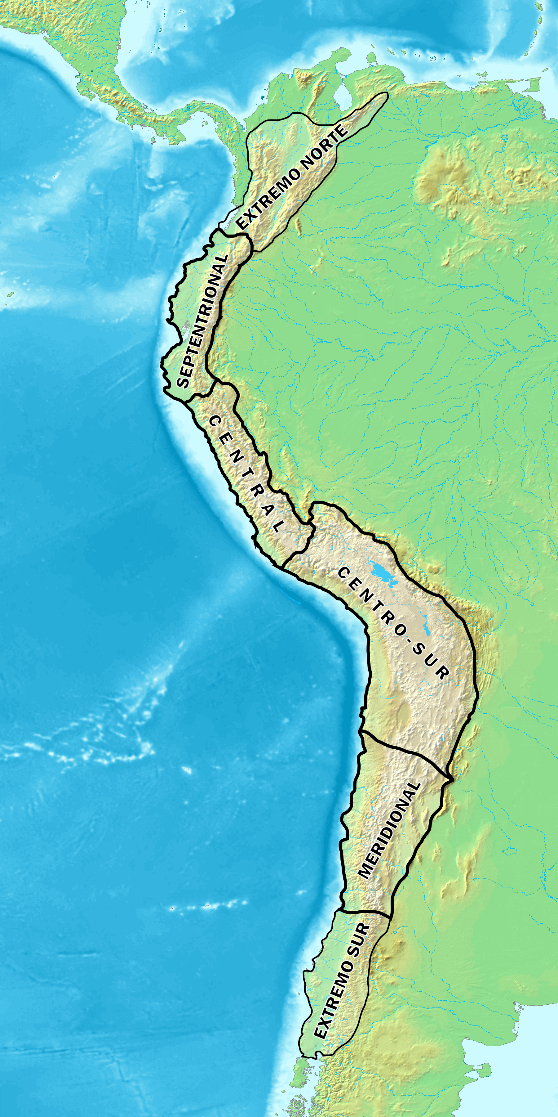 Map showing the areas in which the Andean cultural area is divided.